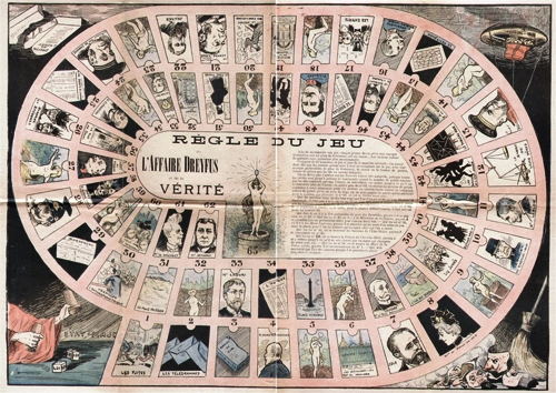 Jeu de l'affaire Dreyfus et de la vérité – French version of the game of the goose from the year 1898.